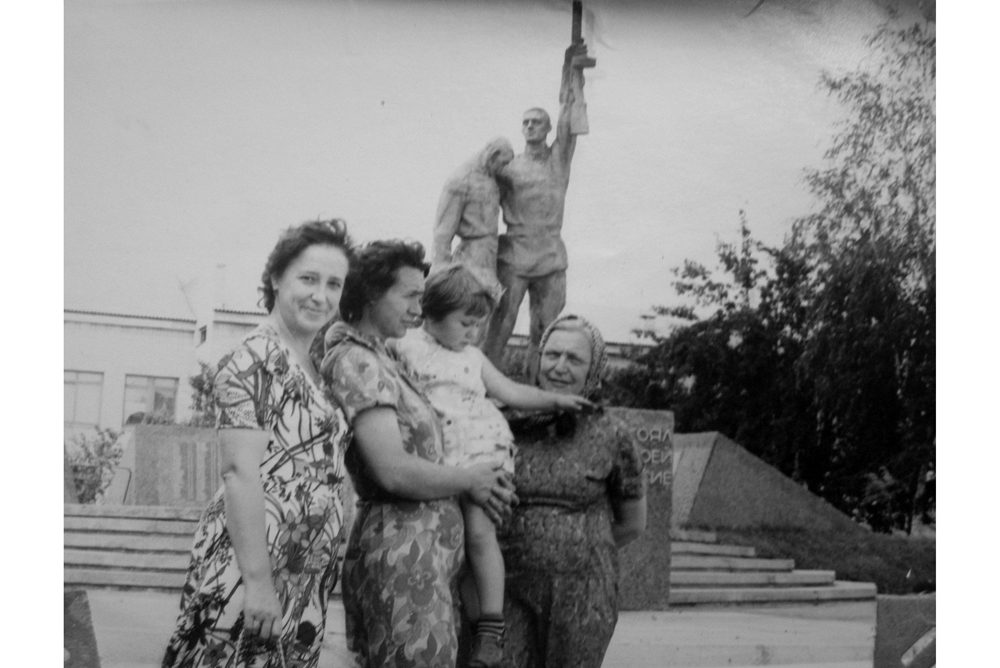 Monument to the lost countrymen in Borzna, 1975